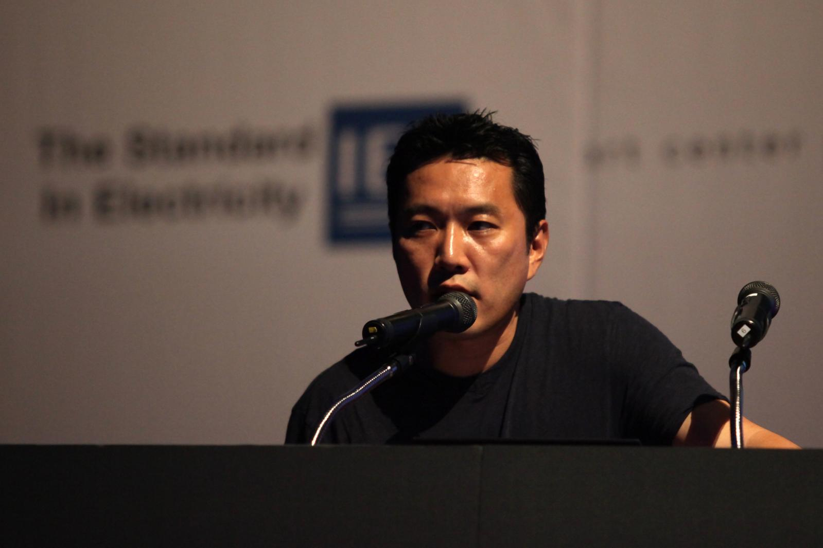 Photo by Jung Jin-ho